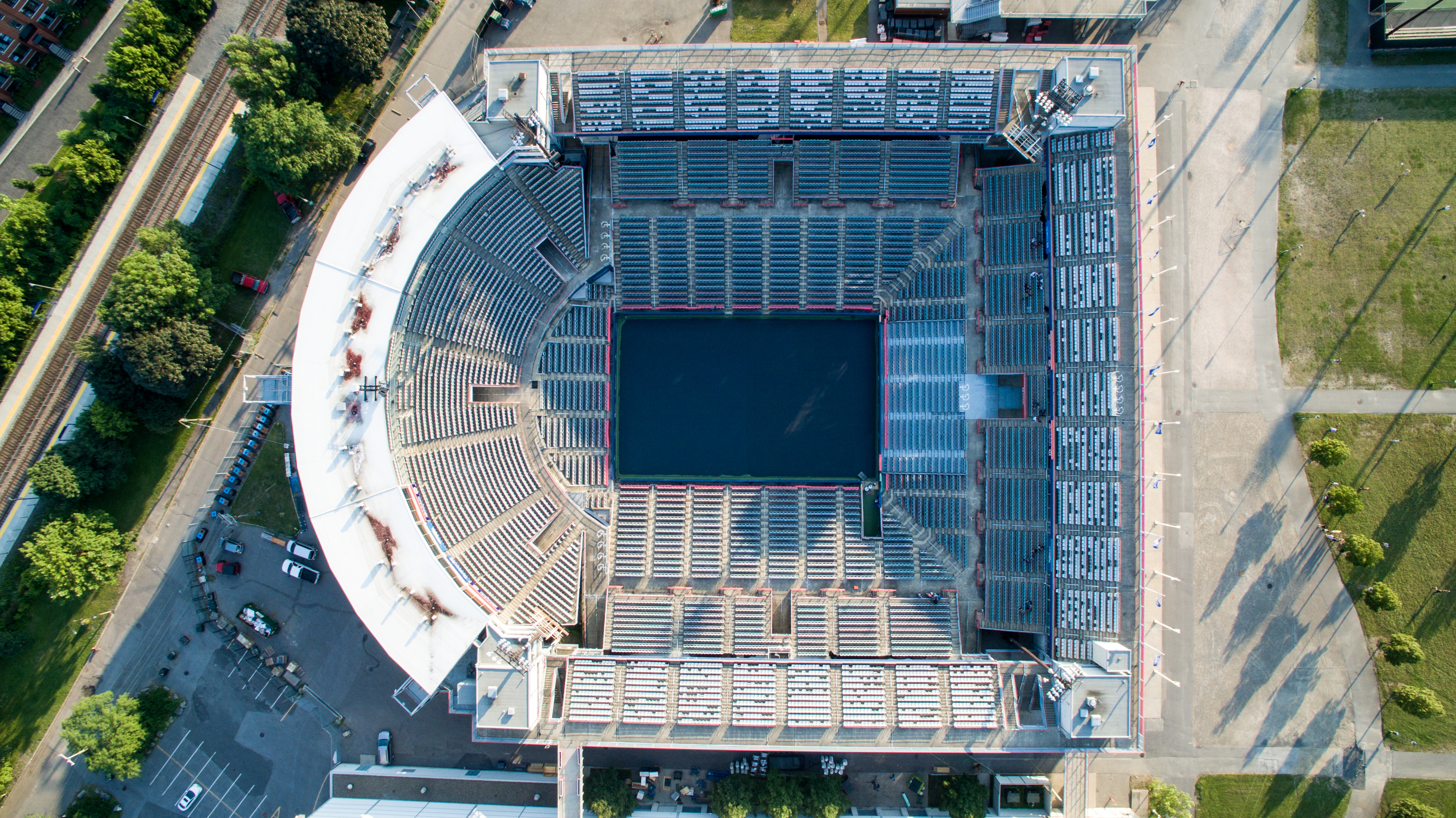 Uniprix Stadium, Montreal, Canada